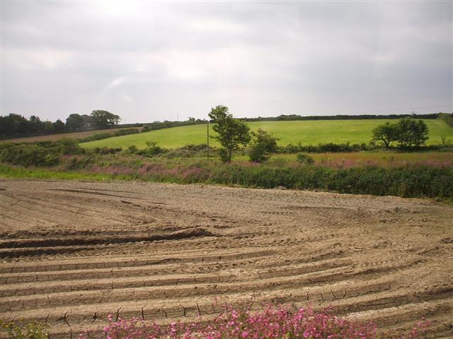 Ashton, Cornwall Some very fine looking soil here.